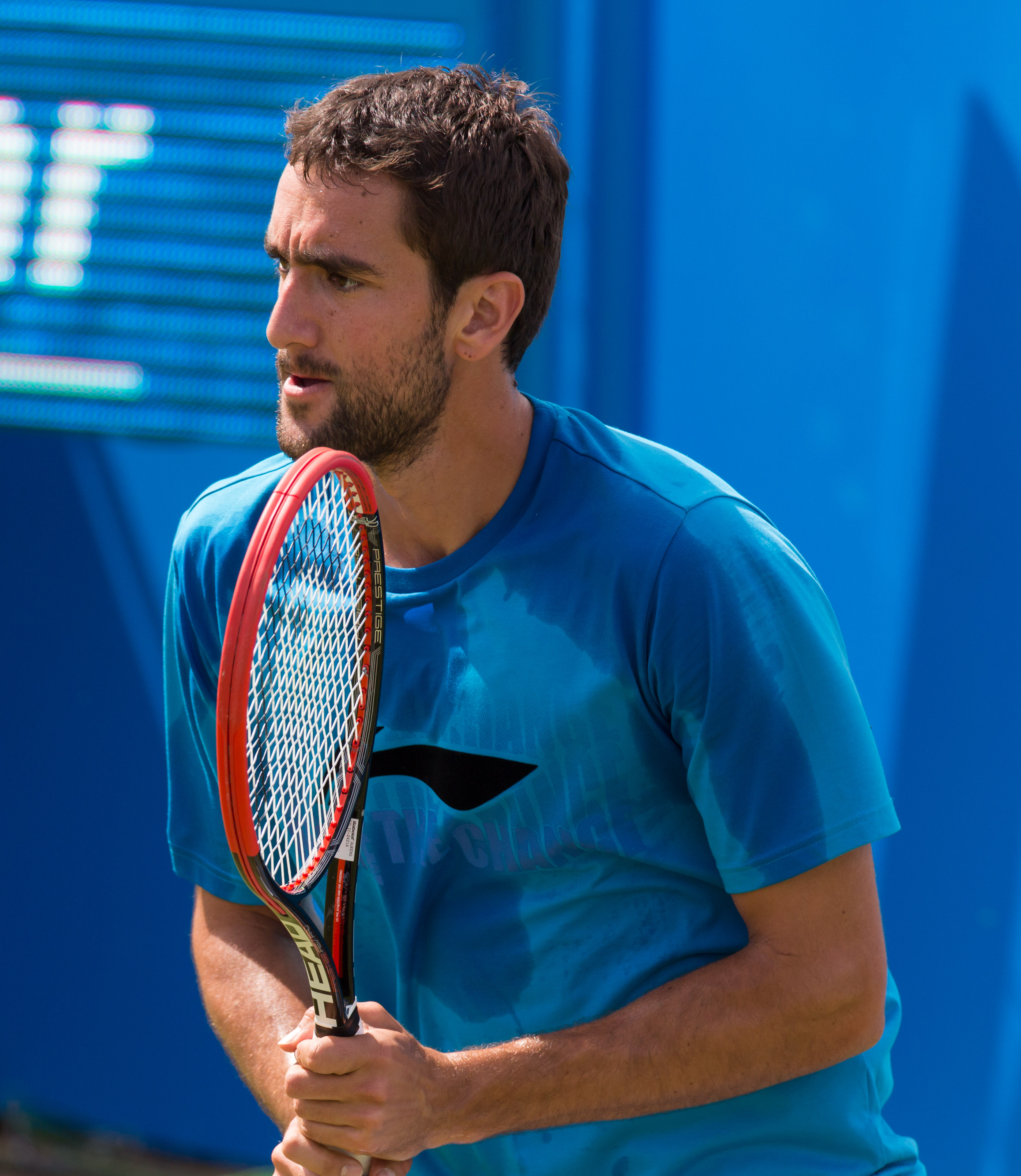 Marin Čilić during practice at the Queens Club Aegon Championships in London, England.